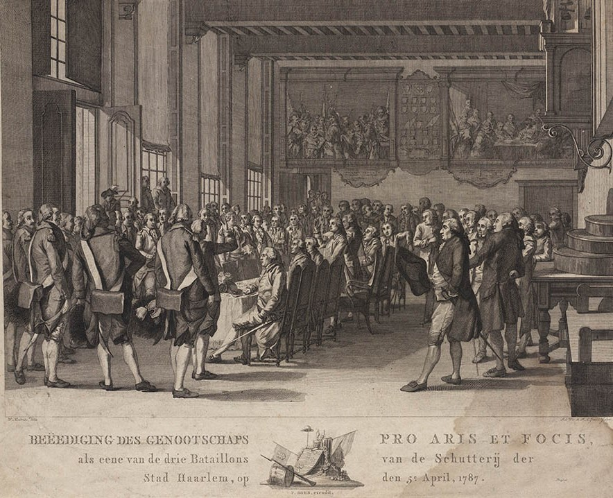 Formal end of the "orange" military Civic guard in Haarlem, and start of a new "Patriotic people's militia" called Pro Aris et Focis. The meeting took place in the former meeting hall of the Cluveniers (today the Haarlem public library). Visible on the rear walls are two schutterstukken, one by Frans Hals from 1633, and one by Pieter Soutman from 1642.